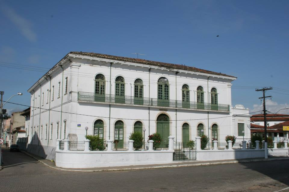 Hospital of Our Lady of the Nativity